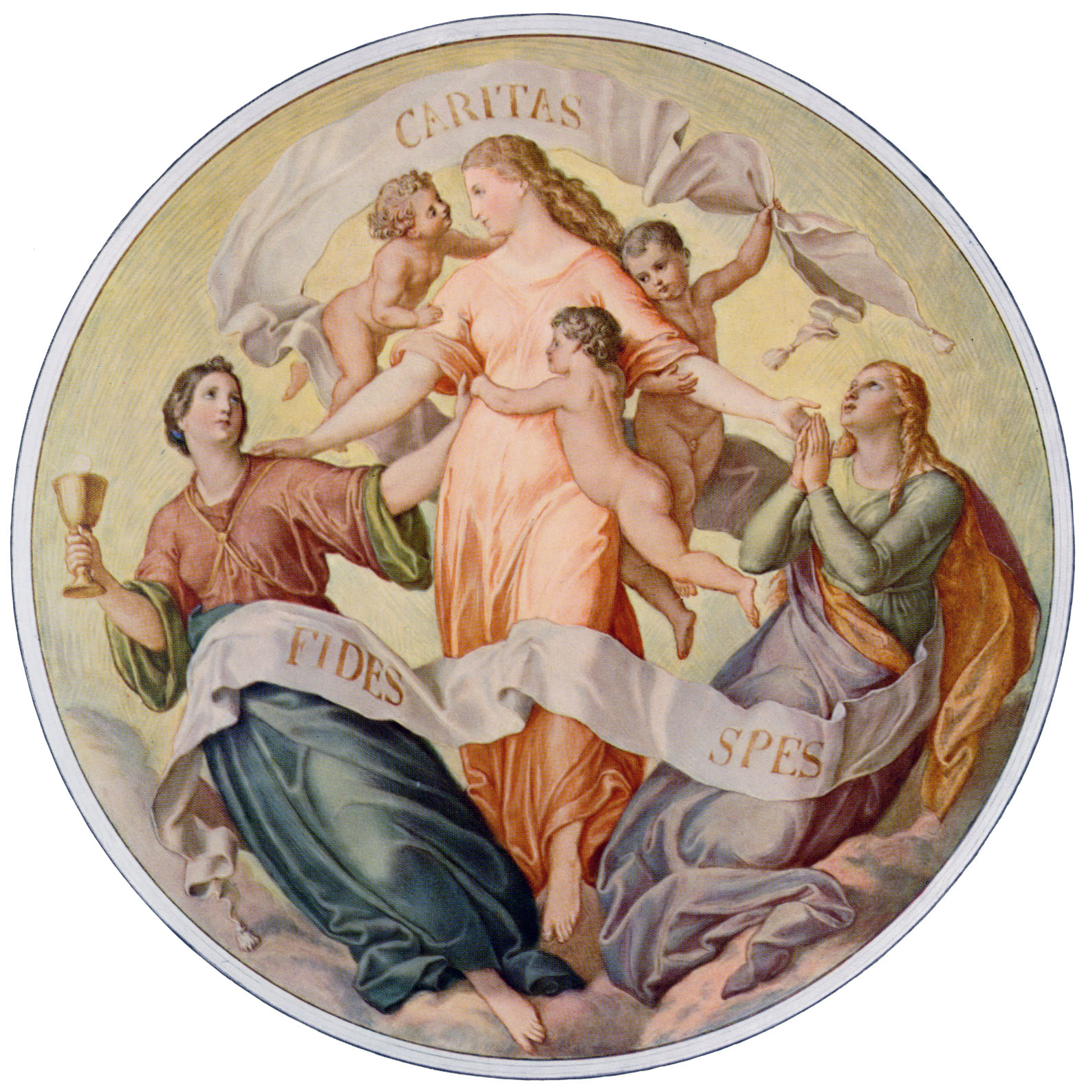 Depiction of faith, hope, and charity (love), from 1 Corinthians of New Testament